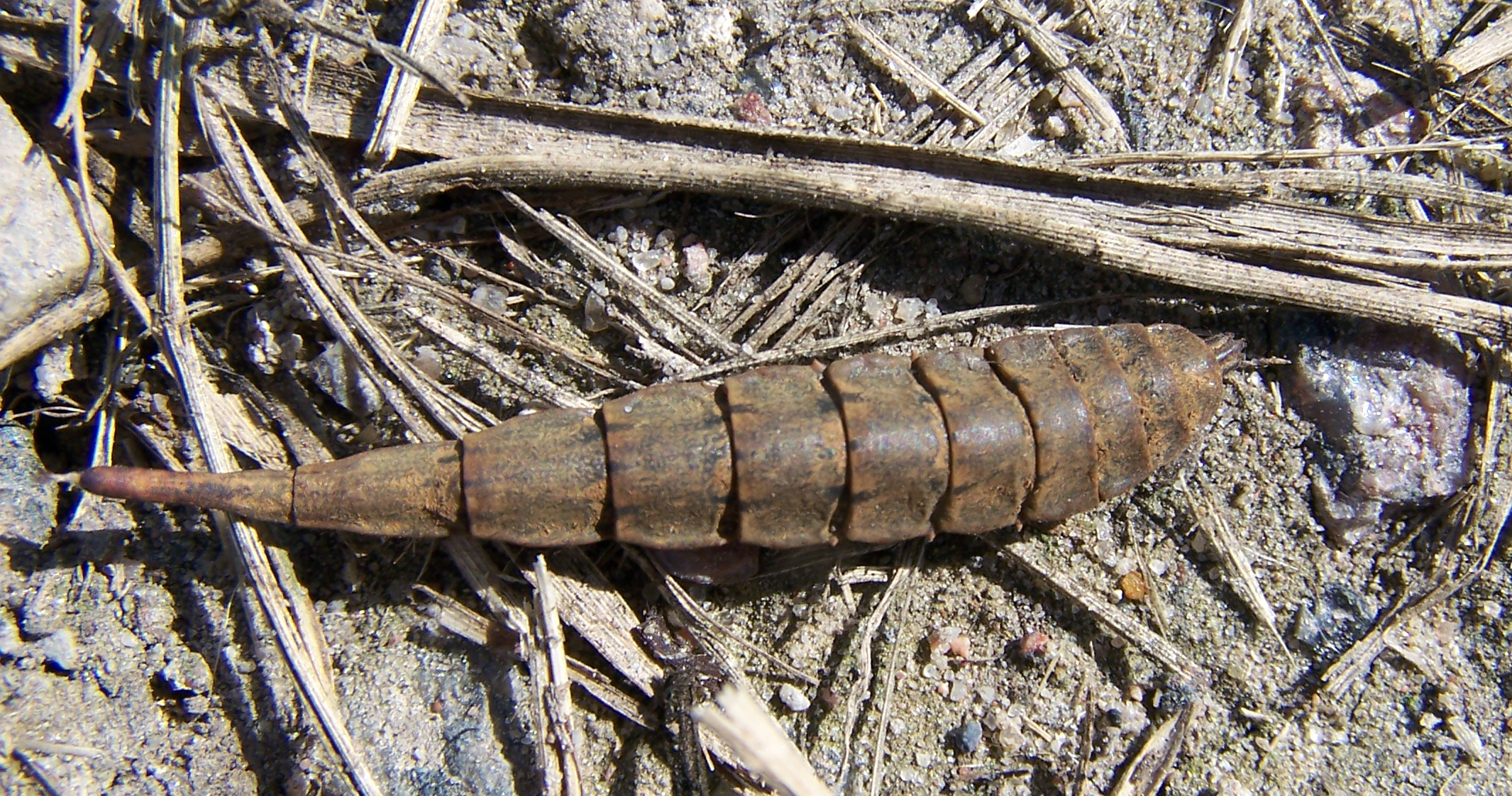 Soldier fly larva (Stratiomys longicornis), encountered close to a salt marsh, near Sülten, Weitendorf (near Brüel), Mecklenburg-Western Pomerania, Germany